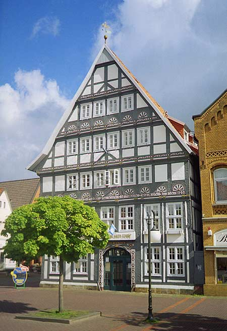 Stadthagen: House of the wolf.